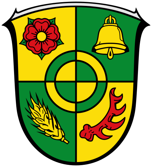 Coat of Arms of Neu-Anspach